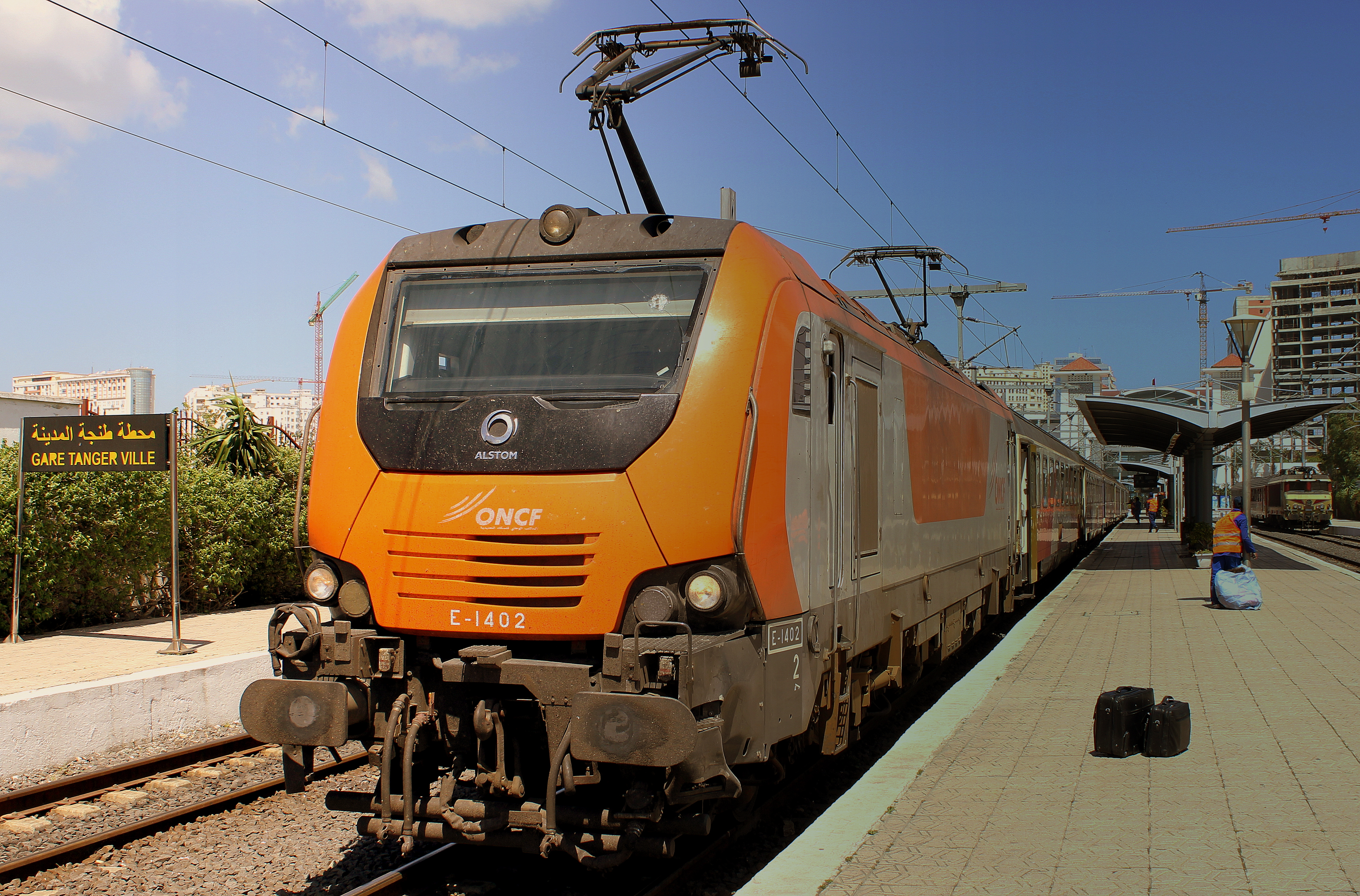 MOROCCAN RAILWAYS ONCF ALSTOM BUILT ELECTRIC LOCO HAULED TRAIN BOUND FOR CASA BLANCA VOYAGUERS STATION AT TANGER VILLE GARE APRIL 2013